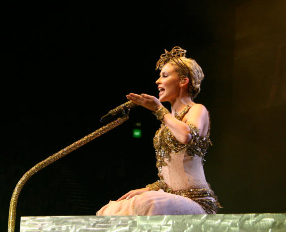 Kylie Minogue concert in Manchester